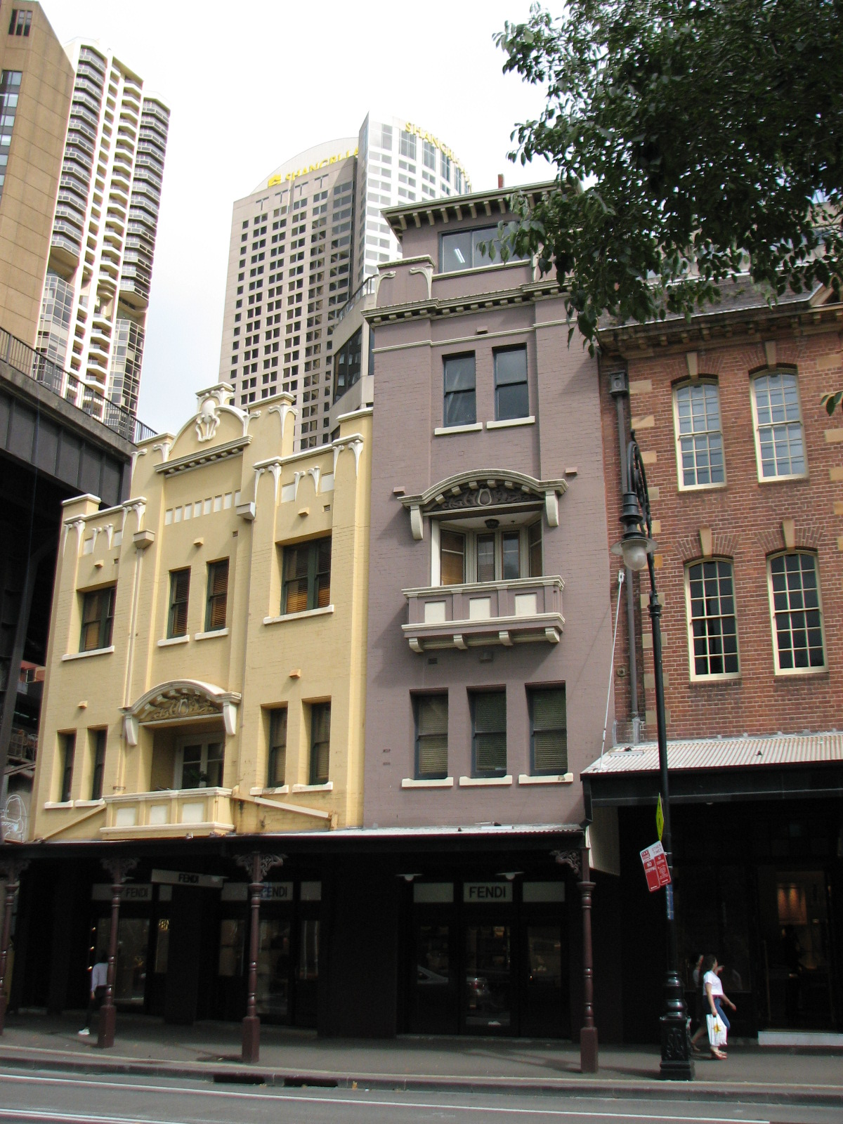 This building is listed on the New South Wales State Heritage Register